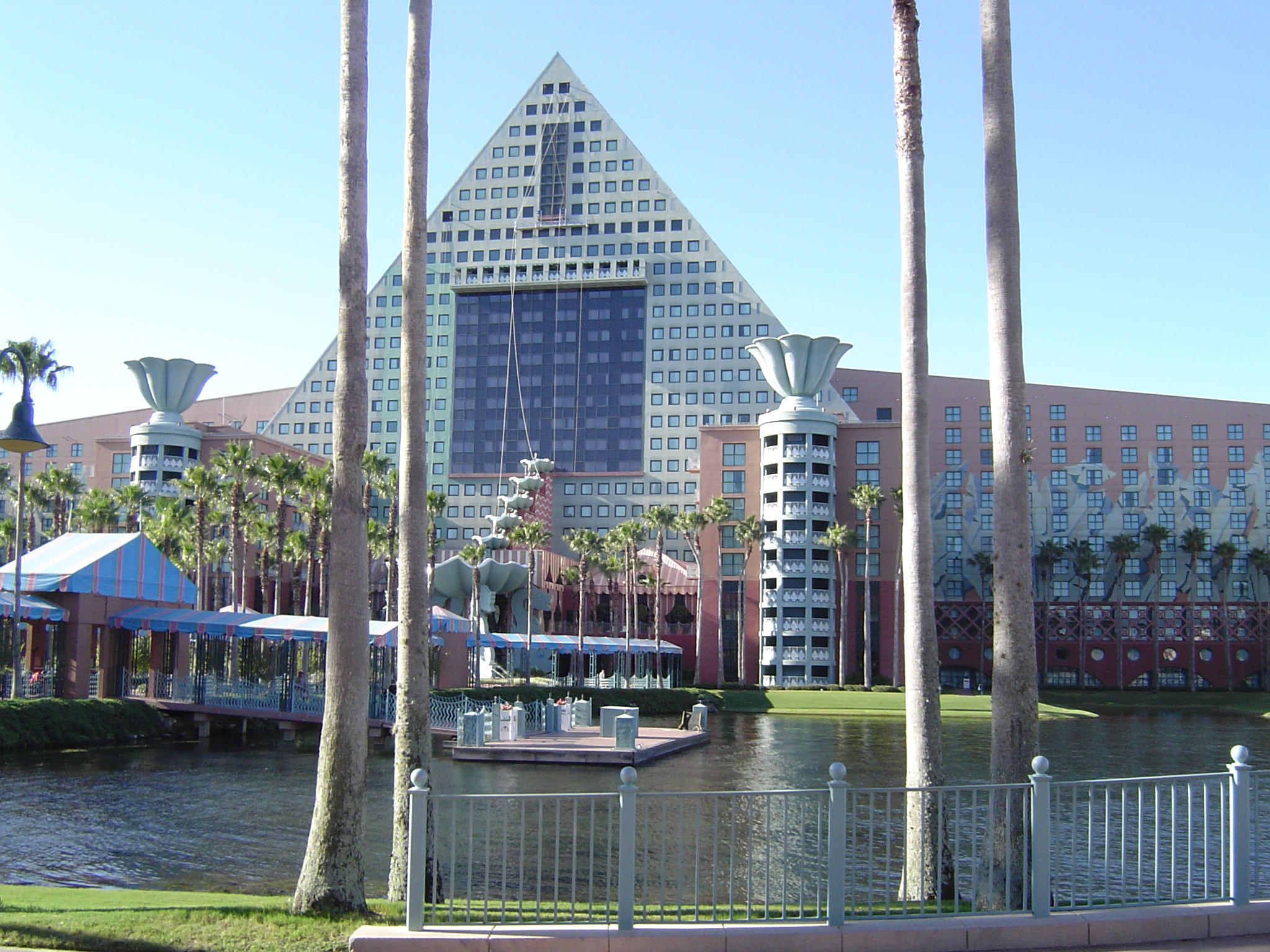 Not available.